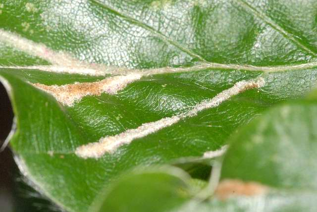 Aceria nervisequa from Commanster, Belgian High Ardennes .